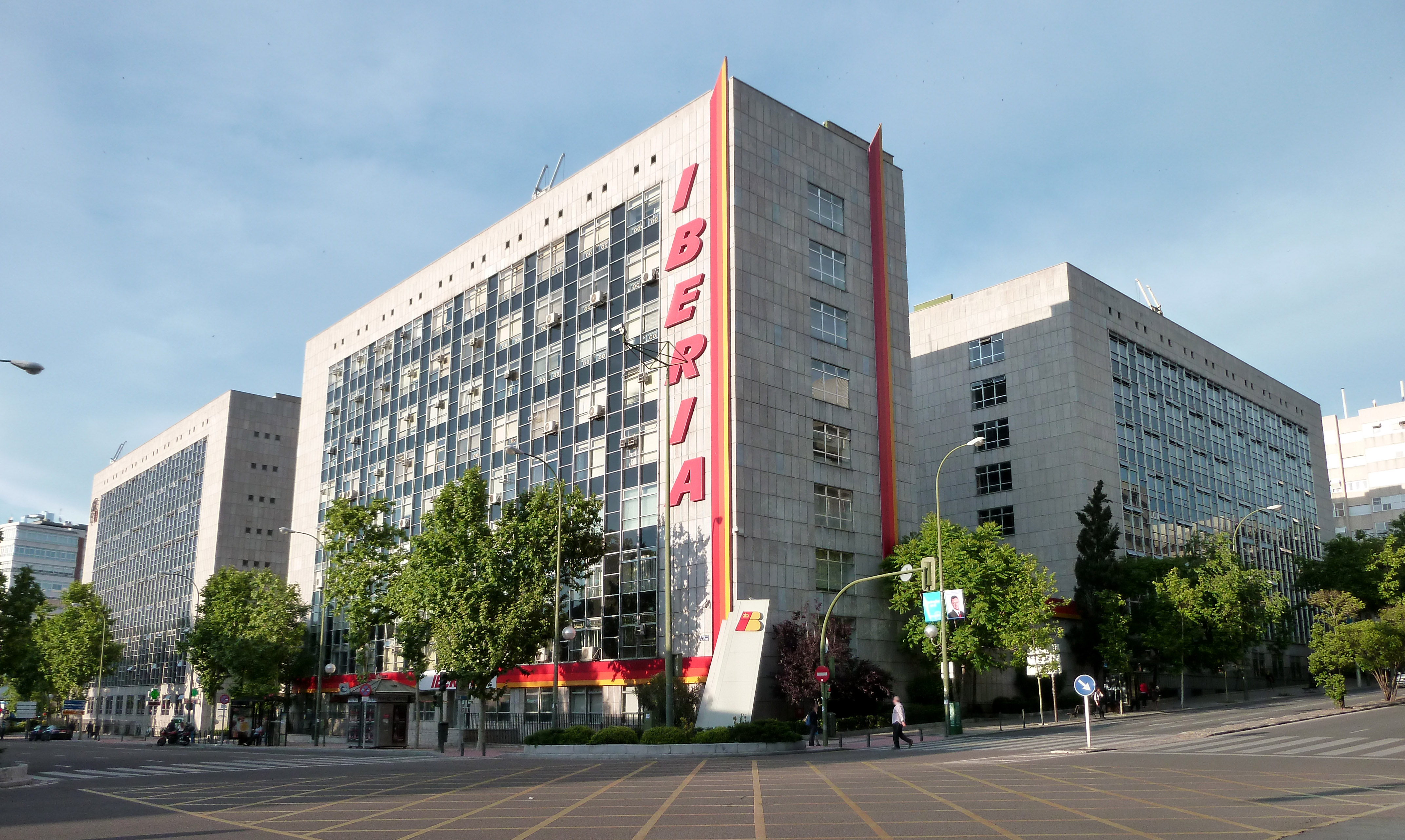 View of SEPI headquarters in Madrid (Spain).